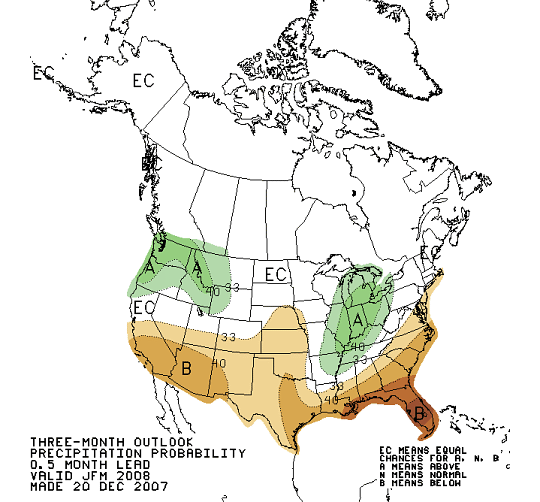 An example of a CDC graphic. This is a three month precipitation outlook.